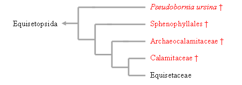 Phylogenetic tree of Equisetopsida